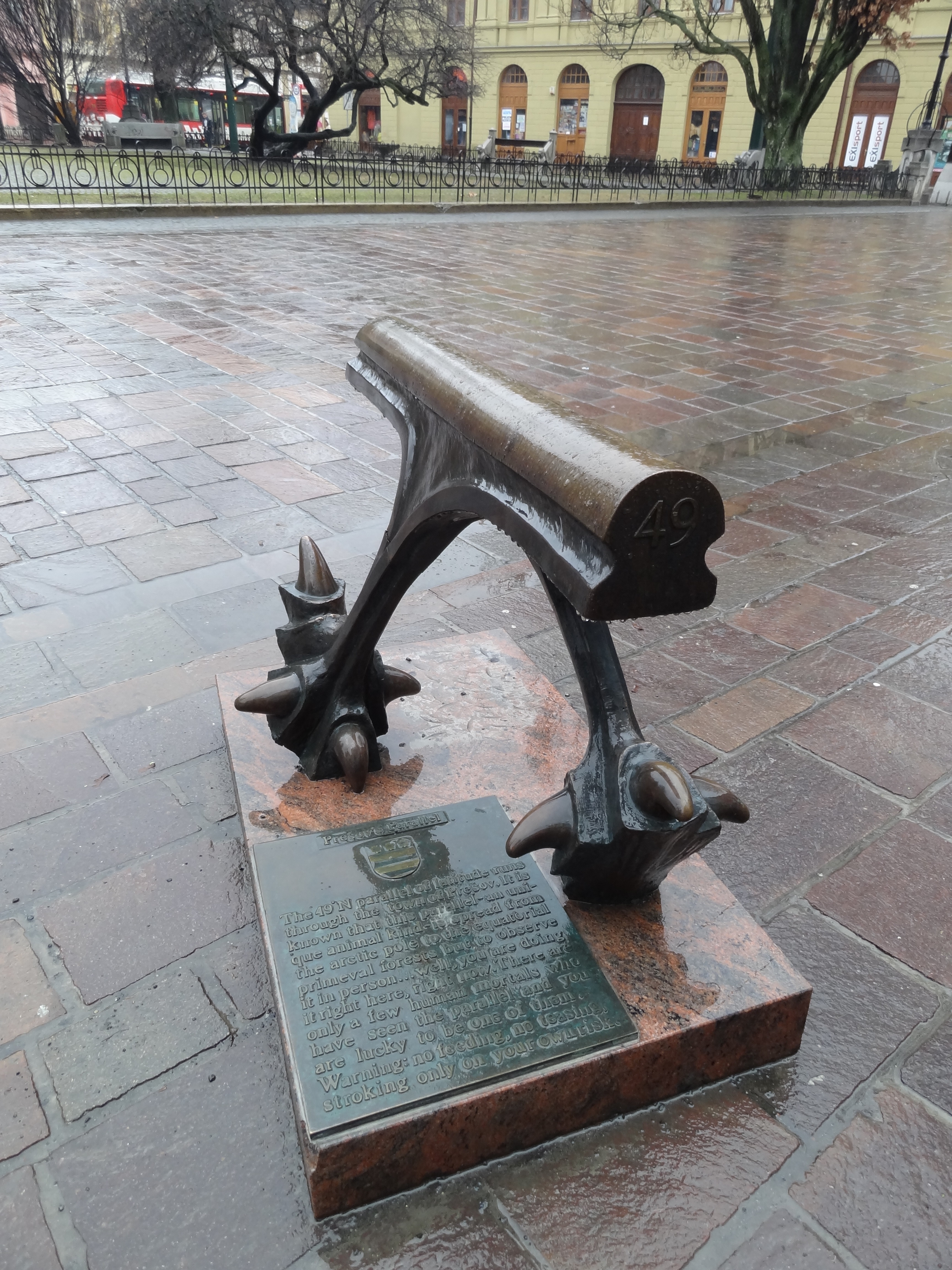 The 49° degree latitude is marked by a monument in Prešov, Slovakia.